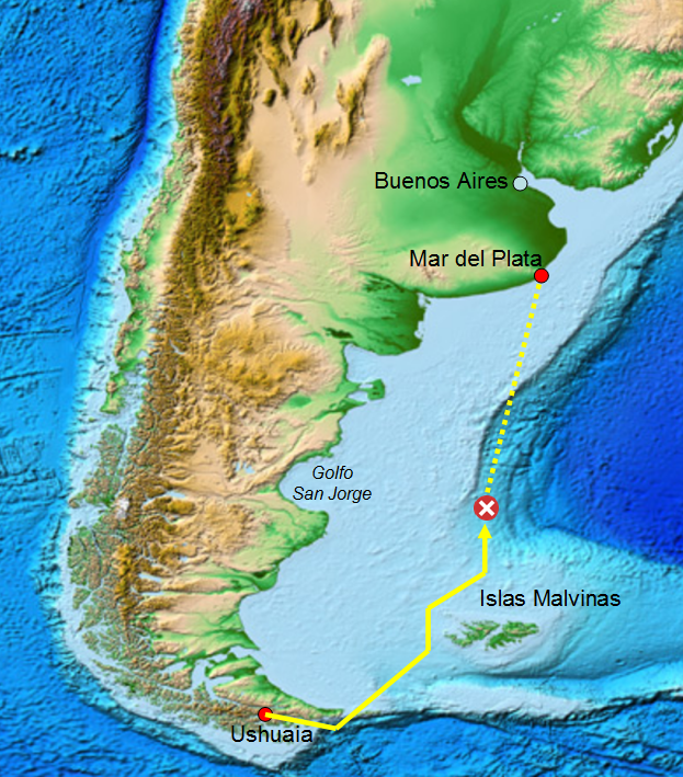 Mapa. Ruta y última posición conocida del submarino ARA San Juan (S-21) de la Armada Argentina, antes de desaparecer el 15 de noviembre de 2017. Latitud 46º 44' (S); Longitud 060º 08' (W). Fuentes: Infobae.- Lassina Zerbo (Executive Secretary of the CTBTO). Twitter. Experts location estimates & refined analysis